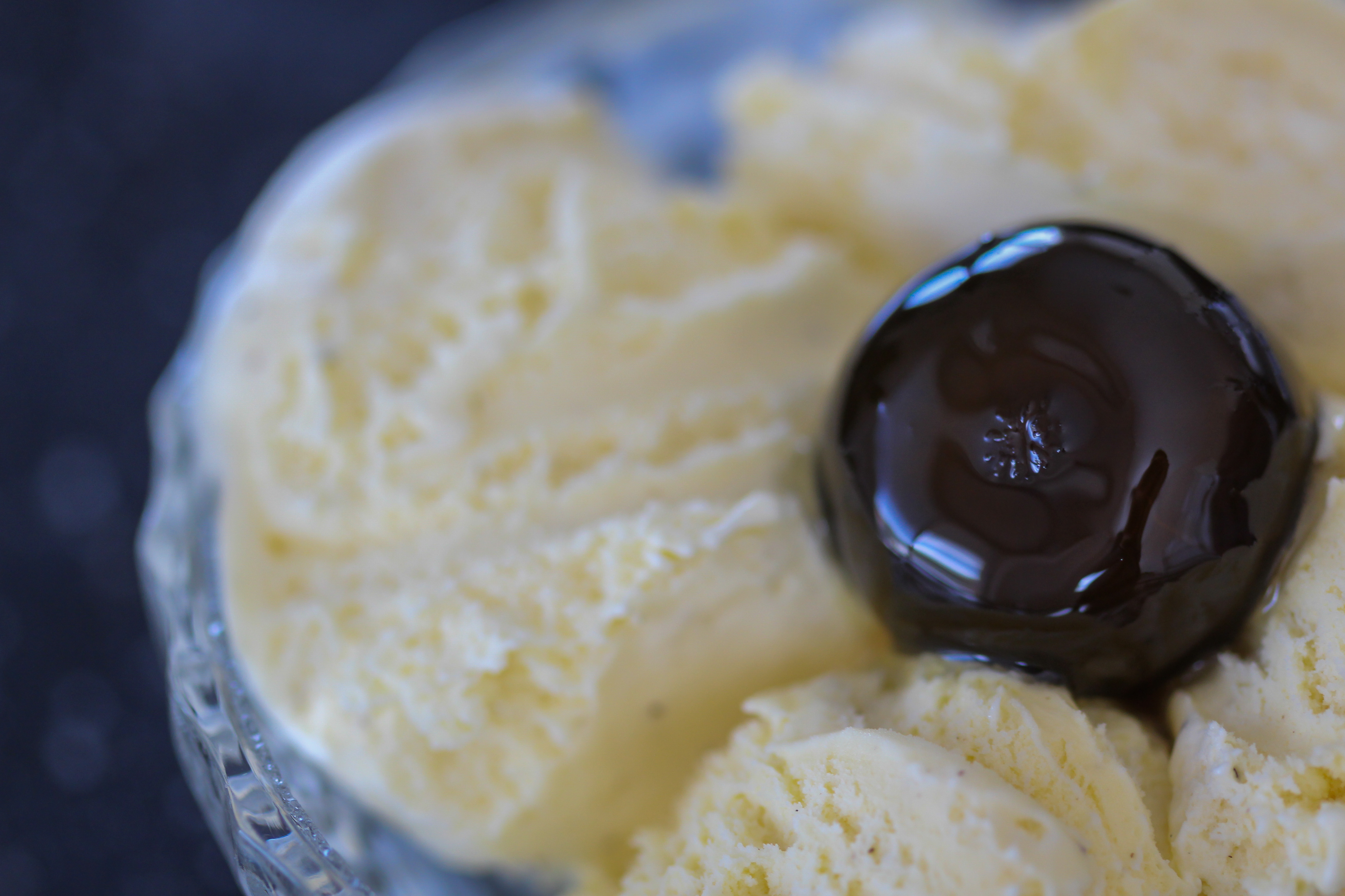 Homemade ice cream with sweet fig